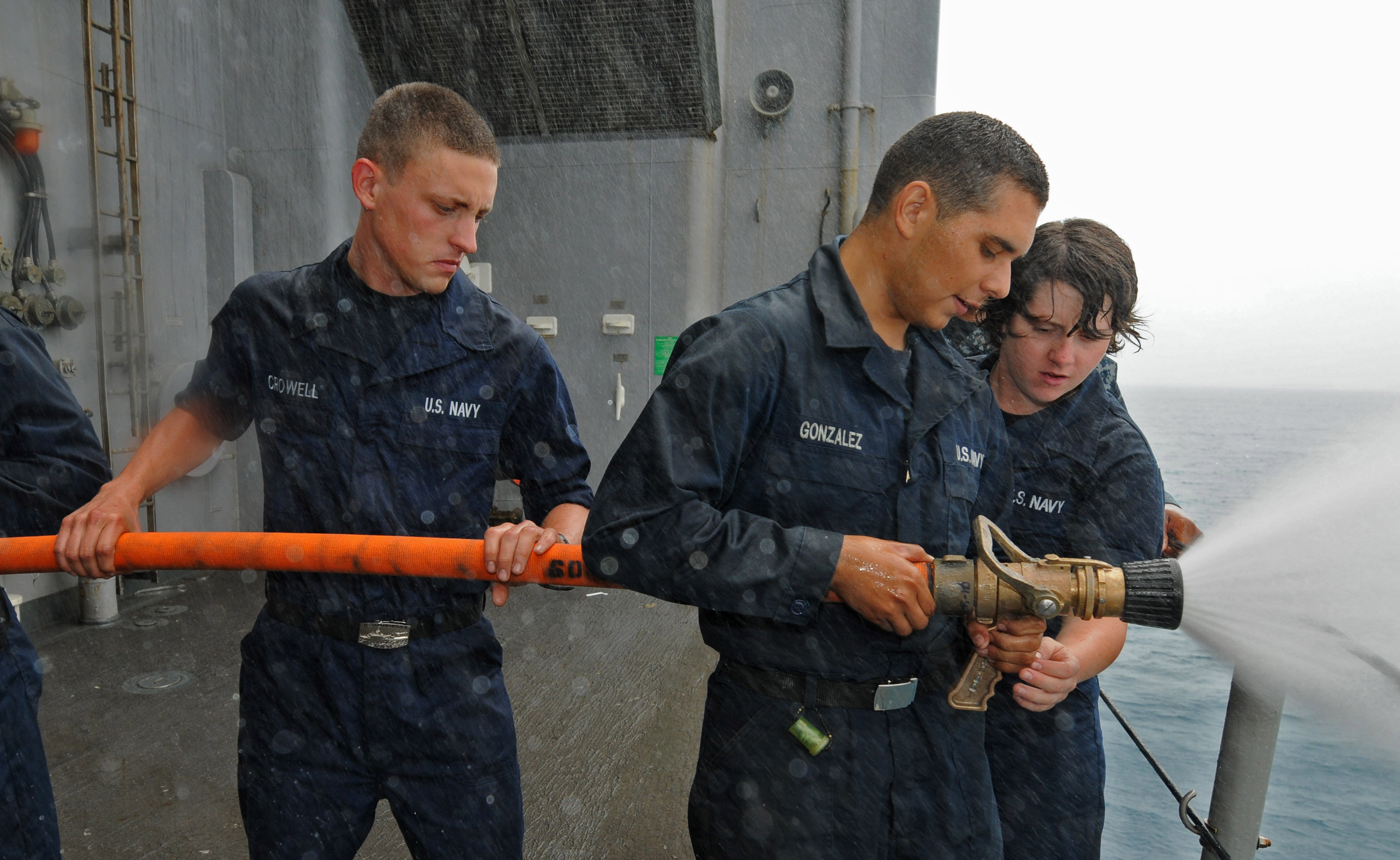 OKINAWA, Japan (Oct. 10, 2011) Information Systems Technician Seaman Zachary Crowell, left, Seaman Apprentice Christopher Gonzalez, and Seaman Brooke Haney work together while discharging a fire hose as part of basic damage control training during command indoctrination aboard the forward deployed amphibious dock landing ship USS Germantown (LSD 42). Germantown is part of the Essex Amphibious Ready Group and is conducting operations in the western Pacific region. (U.S. Navy photo by Mass Communication Specialist 2nd Class Spencer Mickler/Released)